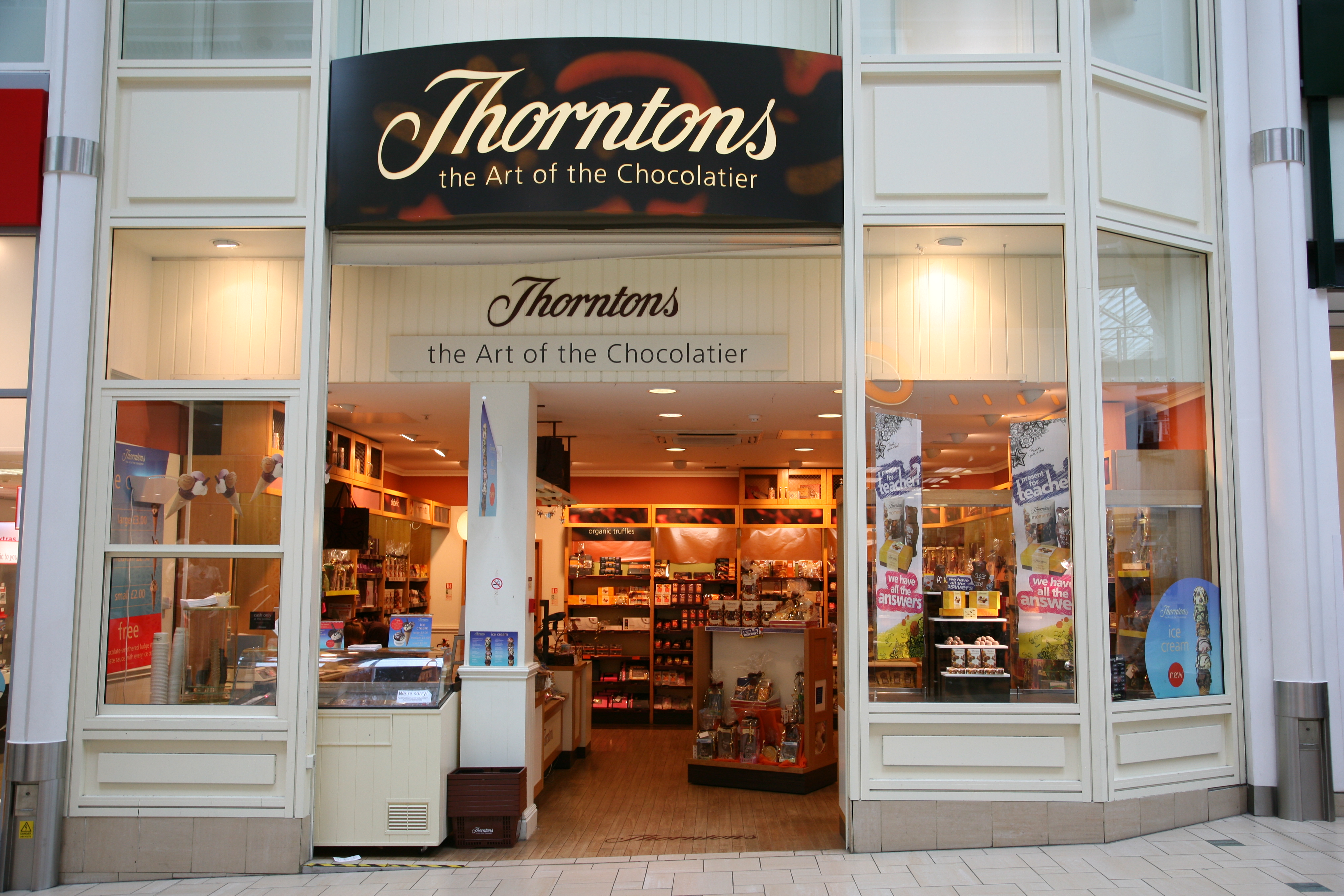 Photo of Thorntons chocolate shop in Banbury, UK, taken by Stratford490